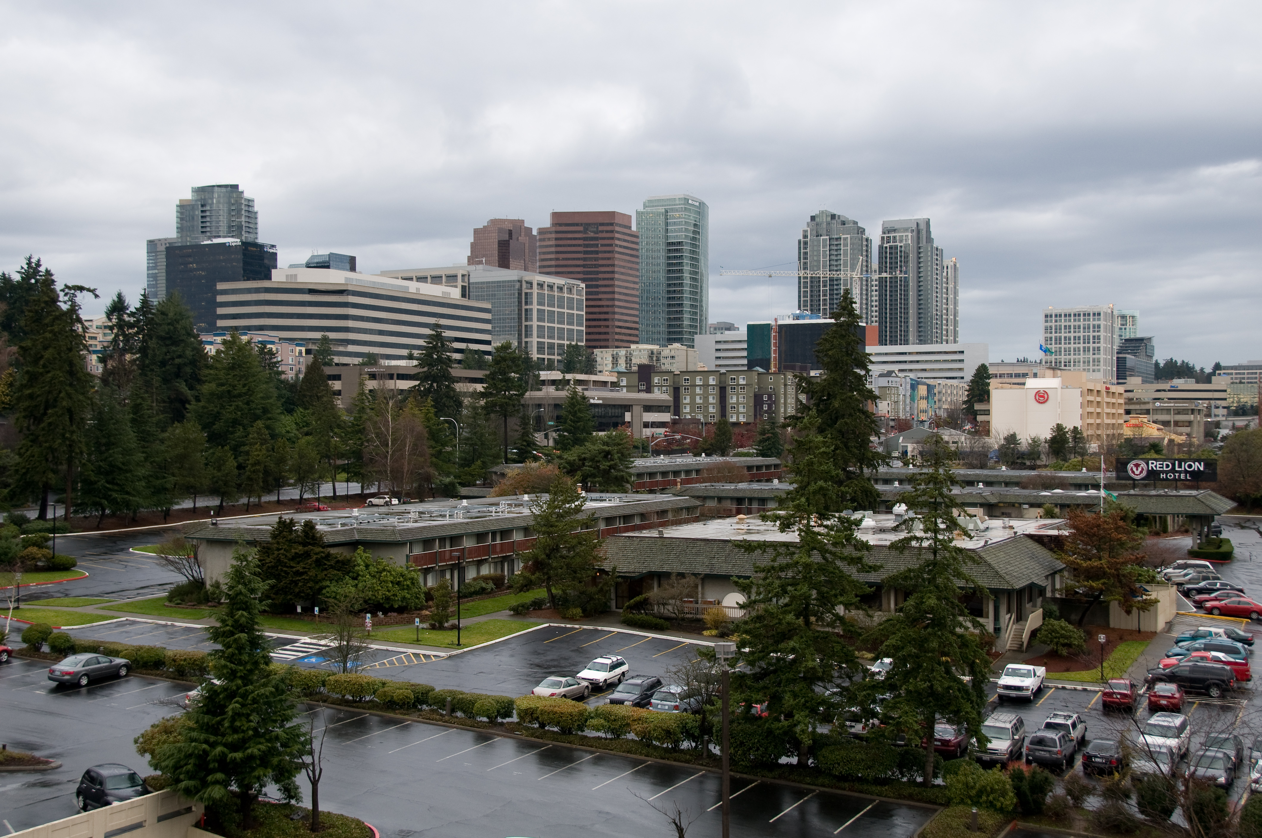 Bellevue skyline